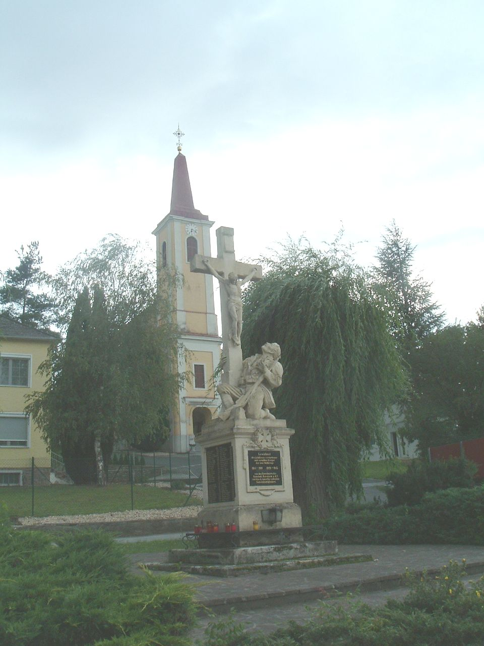 Rotenturm an der Pinka (Vasvörösvár)